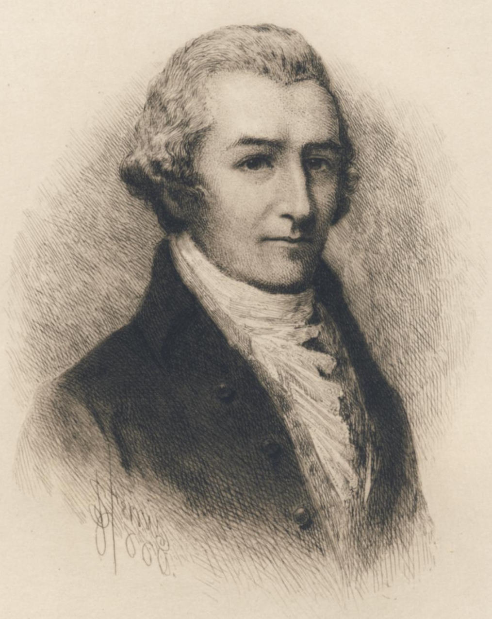 An engraving of William Bradford (1719 – 25 September 1791), a printer, soldier, and leader from Philadelphia during the American Revolution. It is based on a portrait miniature in the possession of the Historical Society of Pennsylvania.